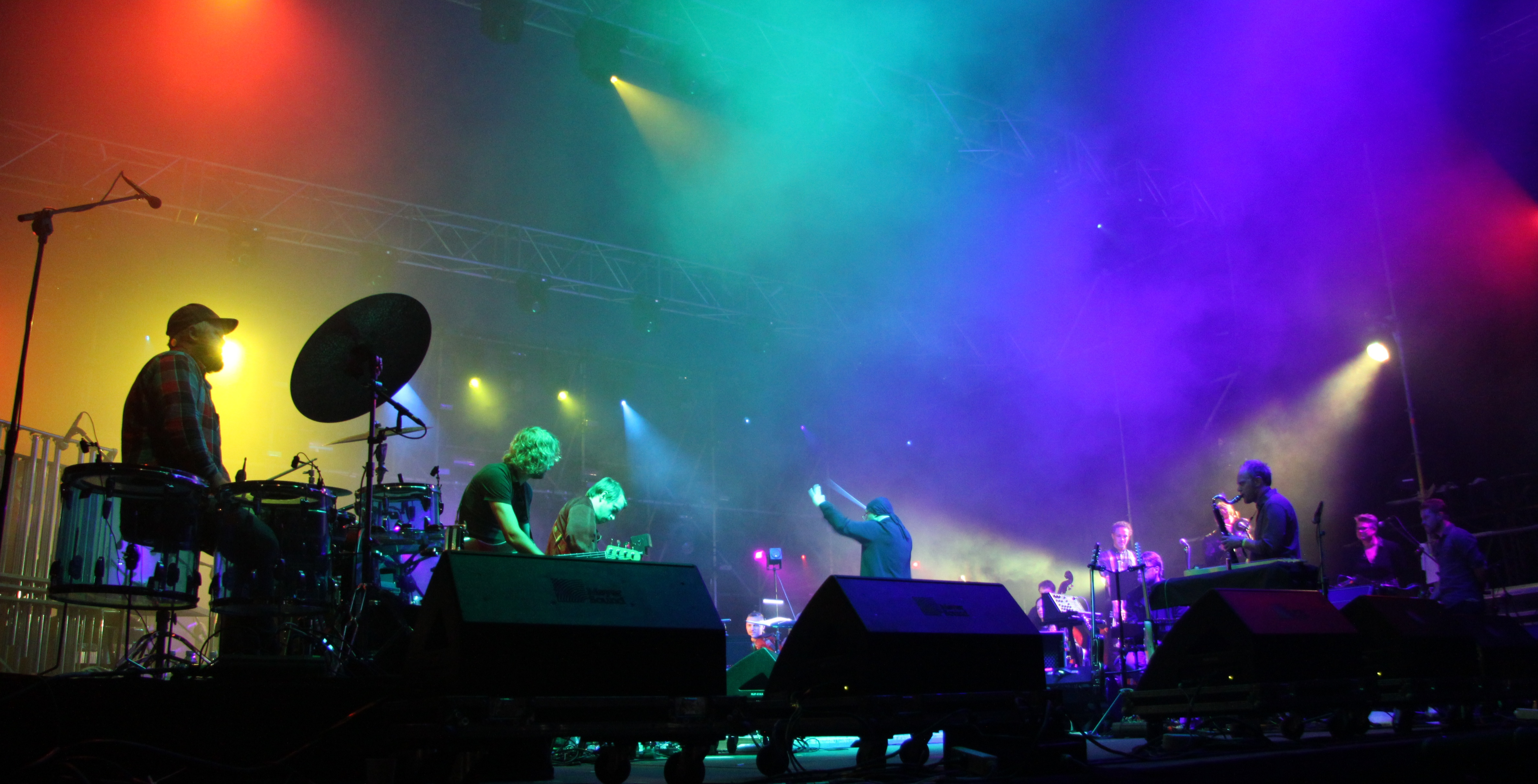 Jaga Jazzist during Tauron Nowa Muzyka 2014 festival.